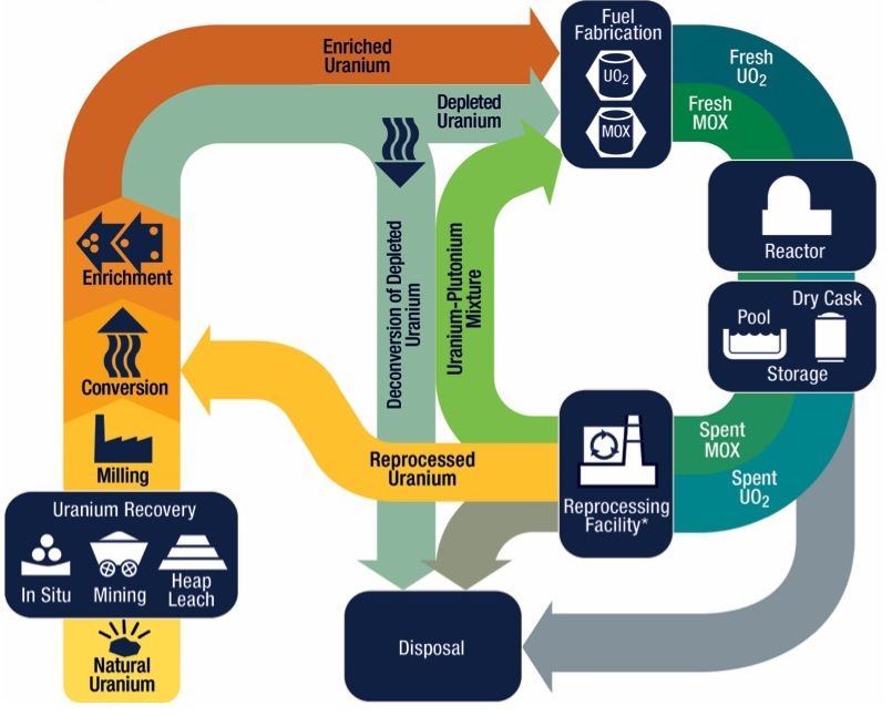 Infographic from 2018-2019 Information Digest, NUREG 1350, Volume 30. Published in August 2018. For More Information go to: 2018-2019 Information Digest Visit the Nuclear Regulatory Commission's website at . Photo Usage Guidelines: Privacy Policy: . For additional information, or to comment on this photo contact: OPA Resource .